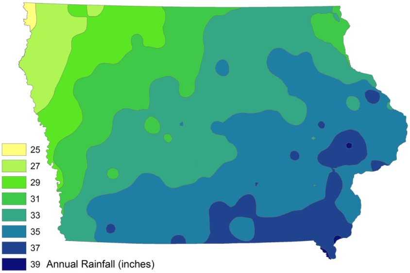 Iowa annual fainfall, in inches, created in ESRI ArcMap 9 from ISU-GIS- REF data, utimately from Iowa DNR and state climatologist data.